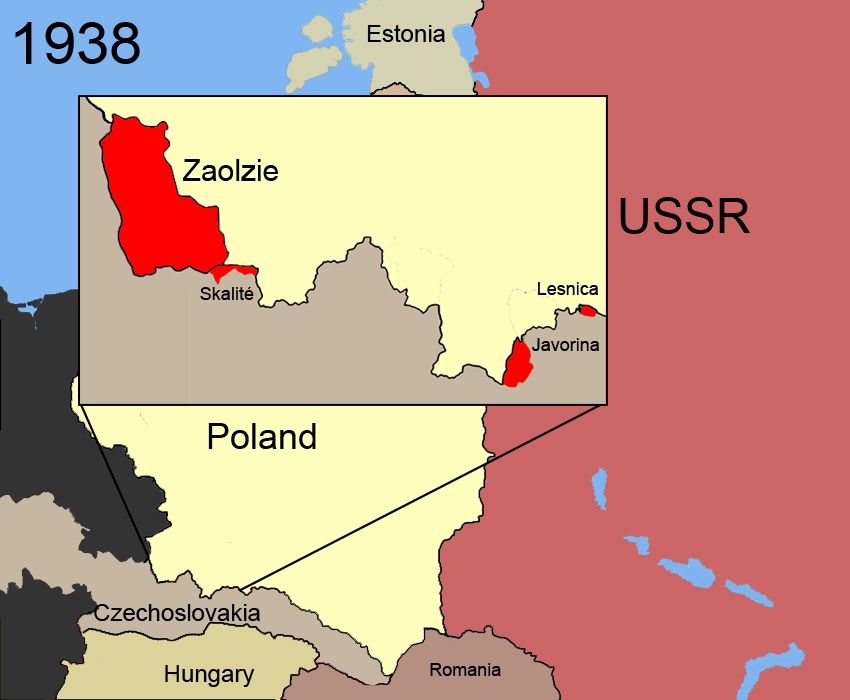 Poland 1938